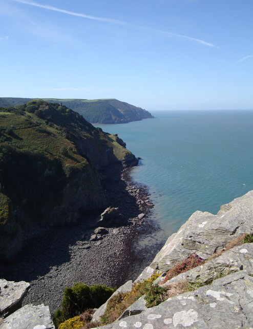 Wringcliff Bay. From The White Lady.